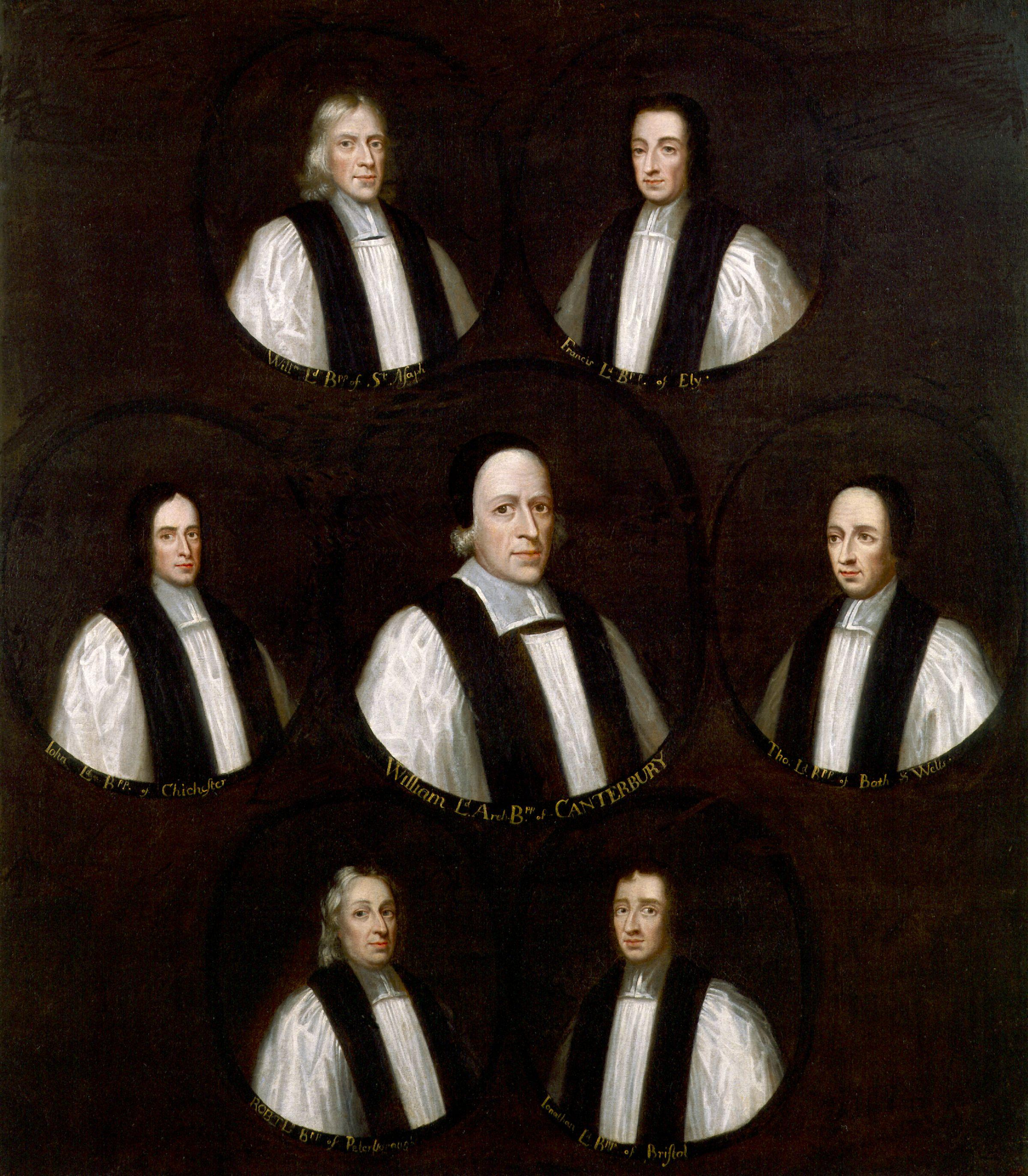 The Seven Bishops committed to the Tower in 1688